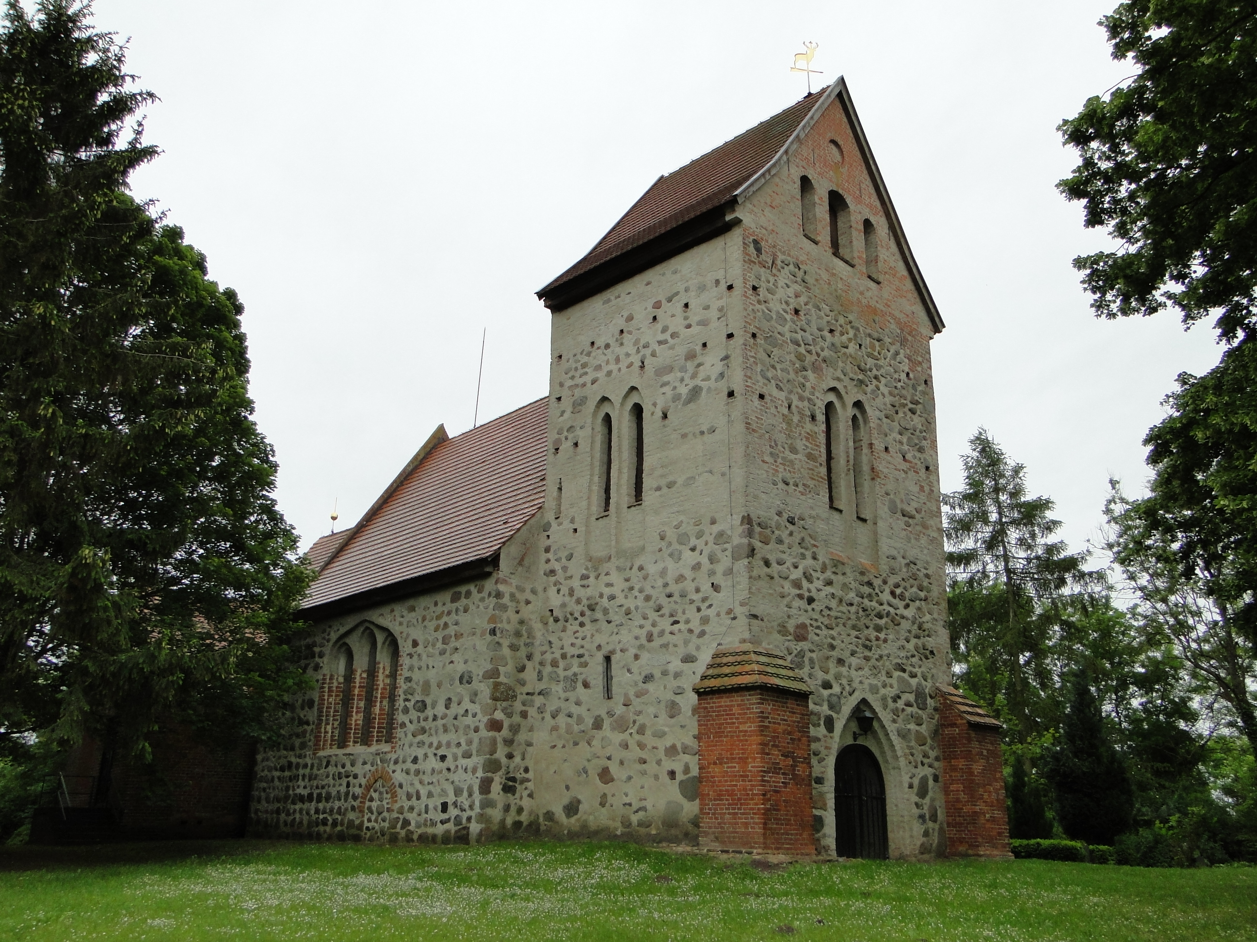 Church in Woserin, district Parchim, Mecklenburg-Vorpommern, Germany